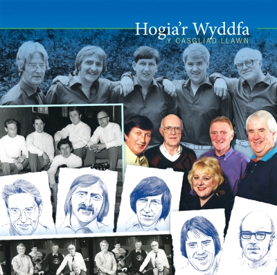 Artwork for the Album Y Casgliad Llawn by Hogia'r Wyddfa